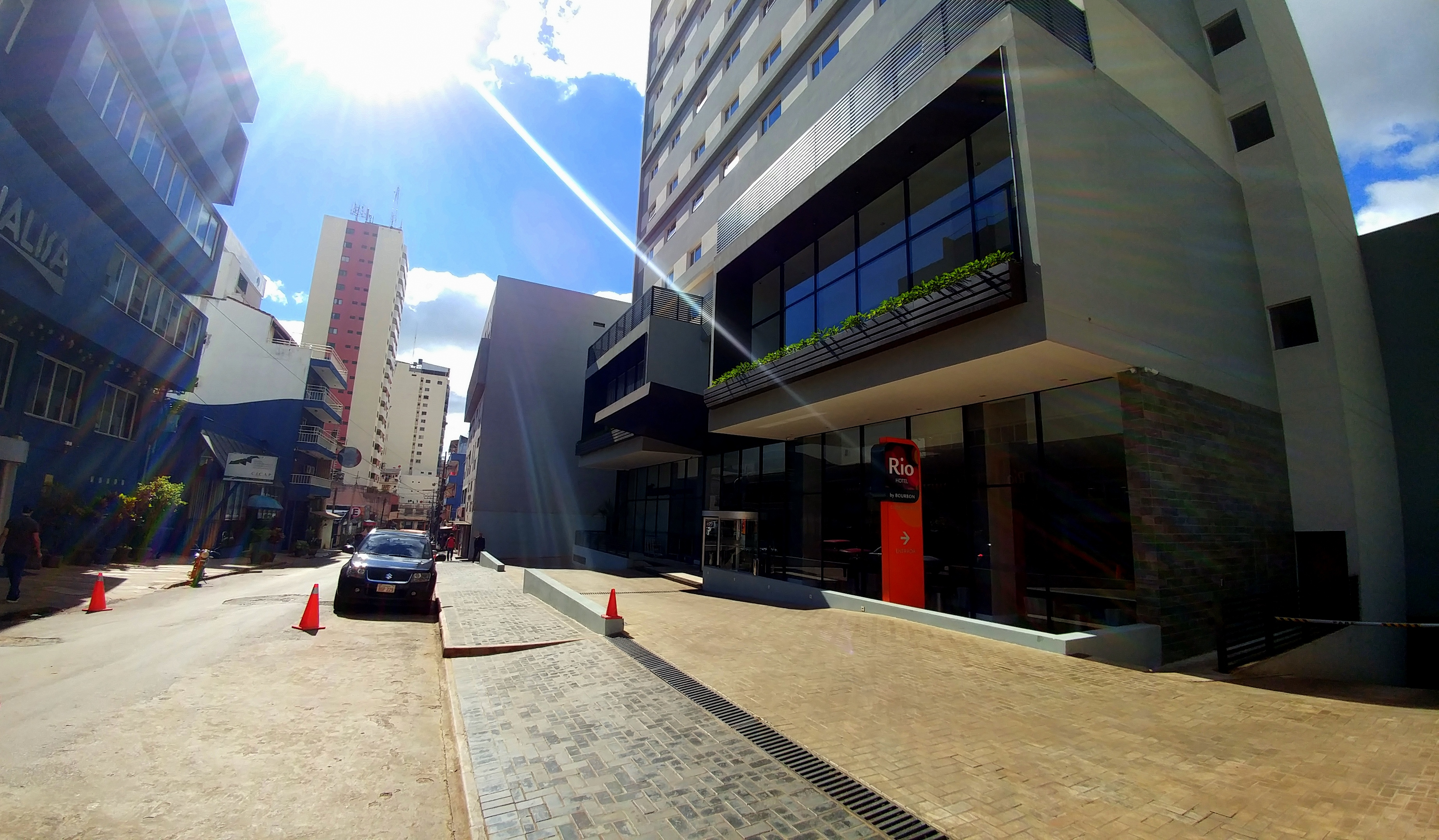 Boqueron street in downtown Ciudad del Este